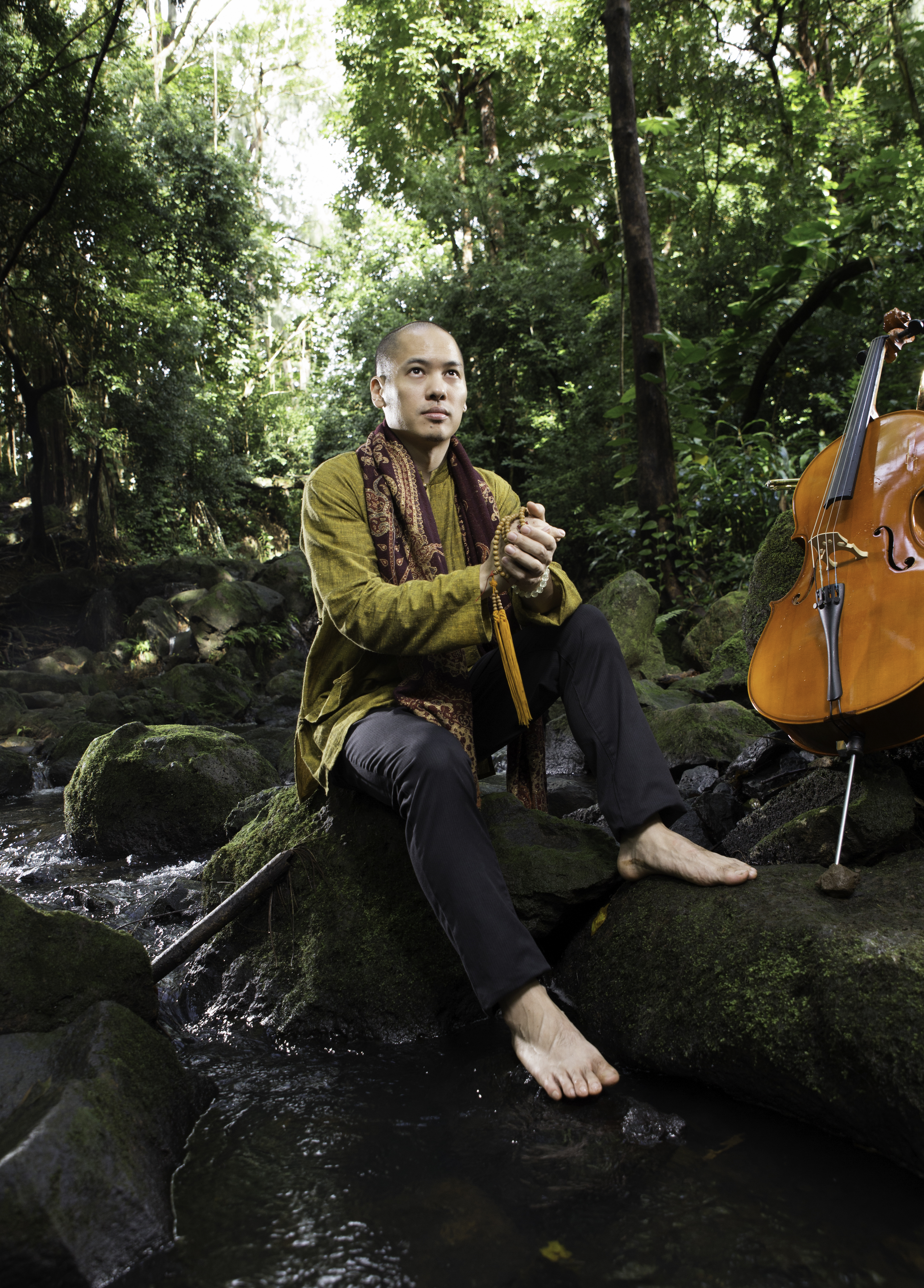 Dana Leong